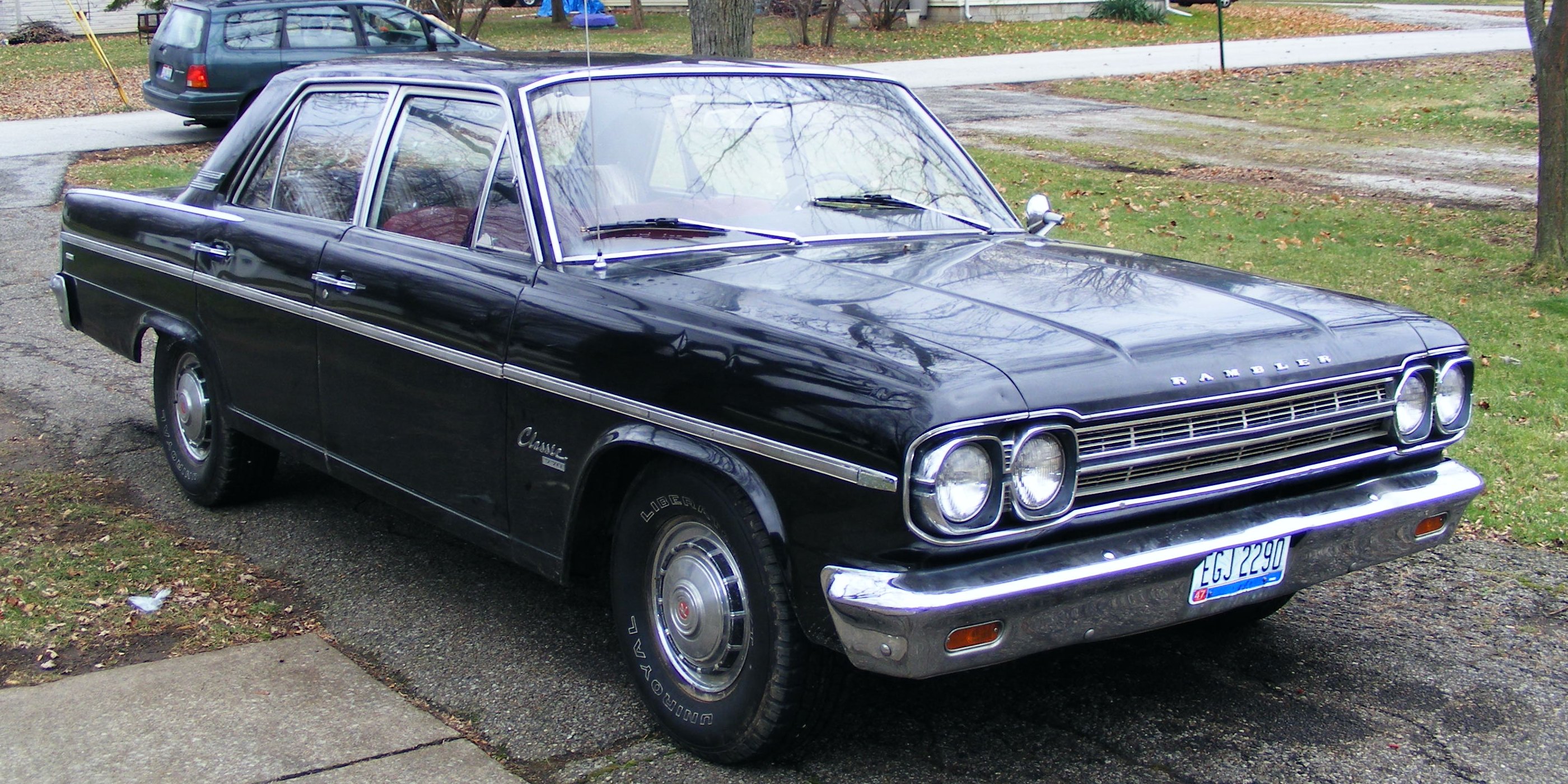 My 1966 AMC Rambler Classic 770. Stock, unrestored condition. 232ci Straight Six, 3-speed Borg Warner automatic transmission with Torque Tube.